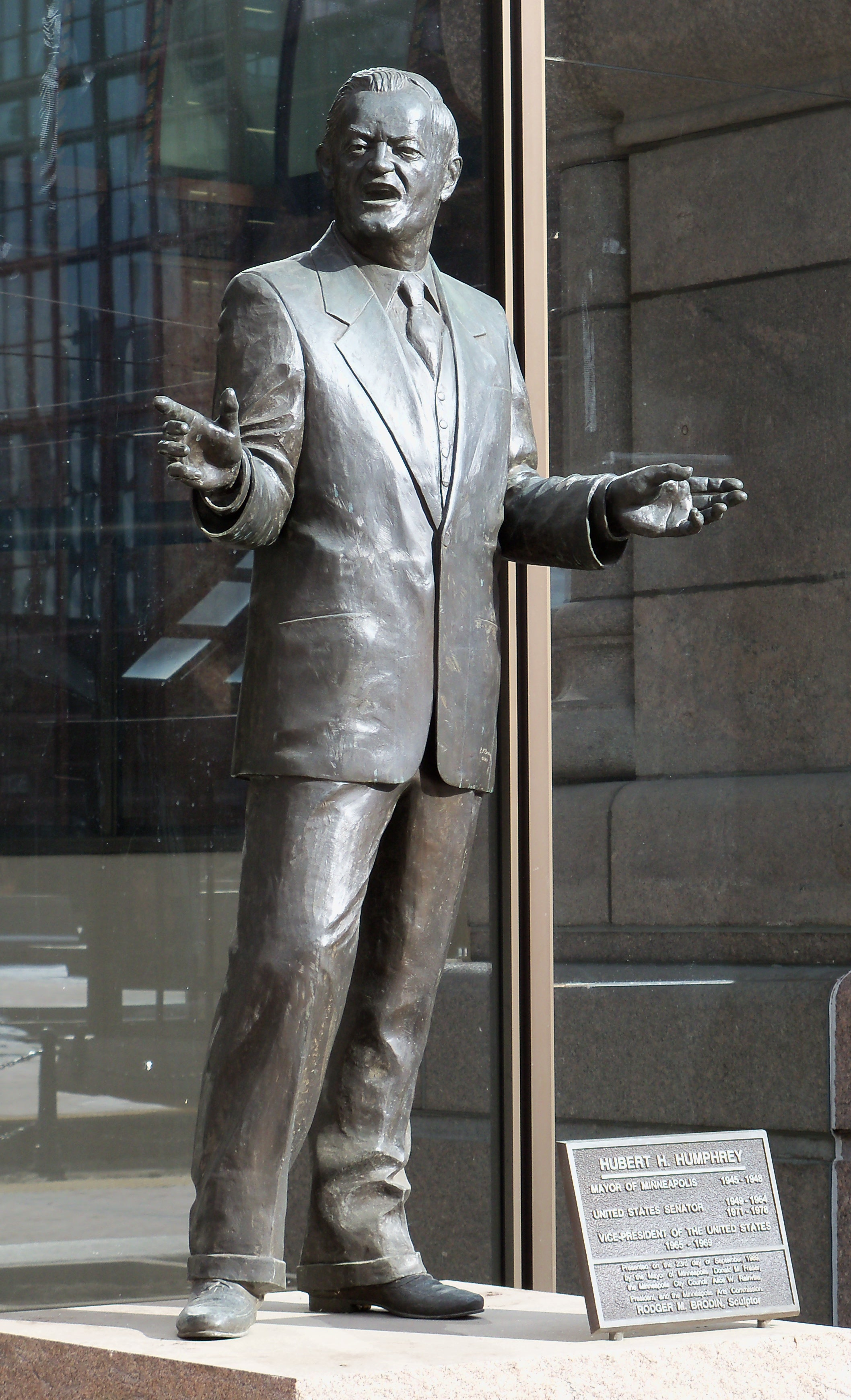 Hubert Humphrey statue